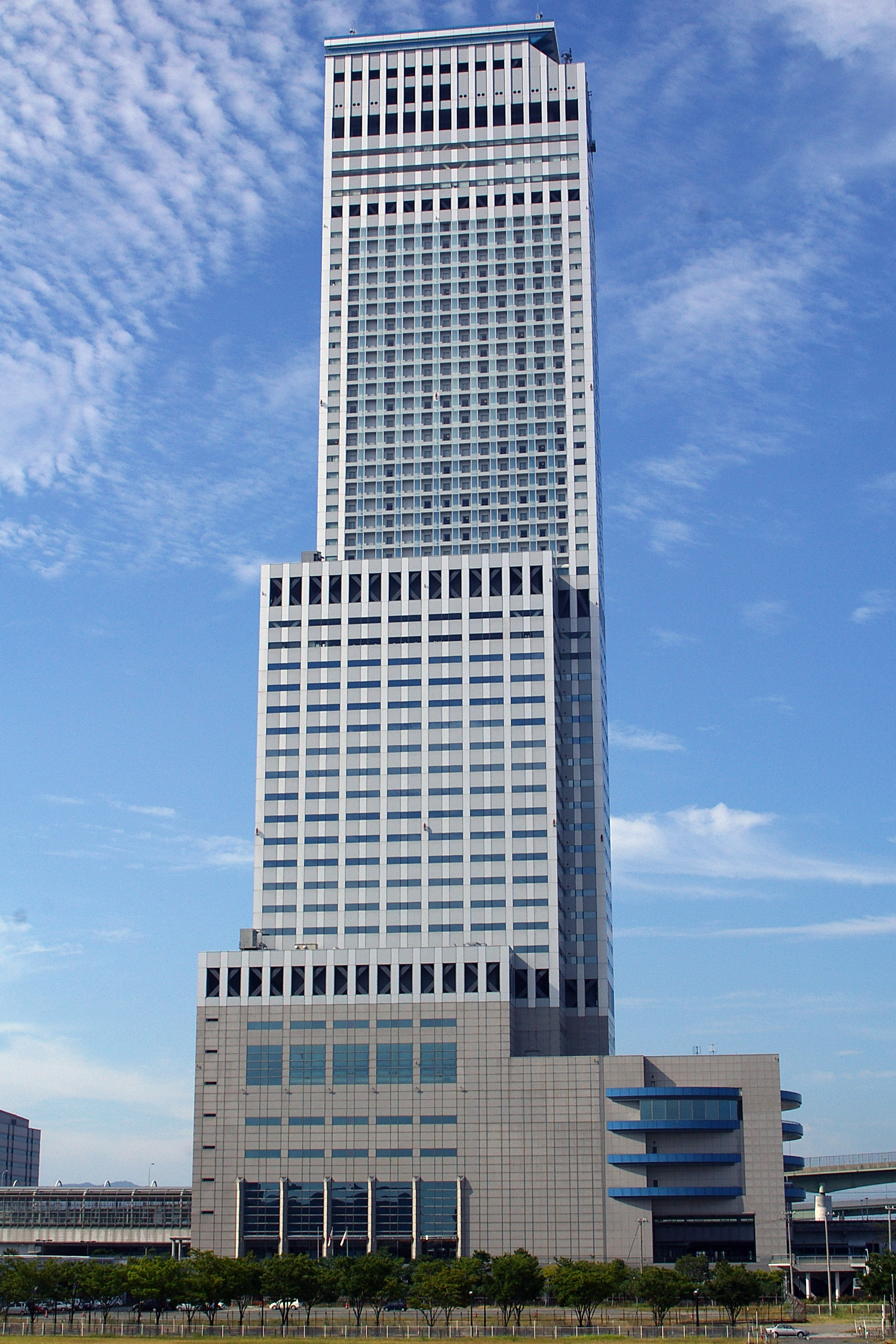 Photograph of Rinku Gate Tower Building in Izumisano, Osaka Prefecture, Japan.